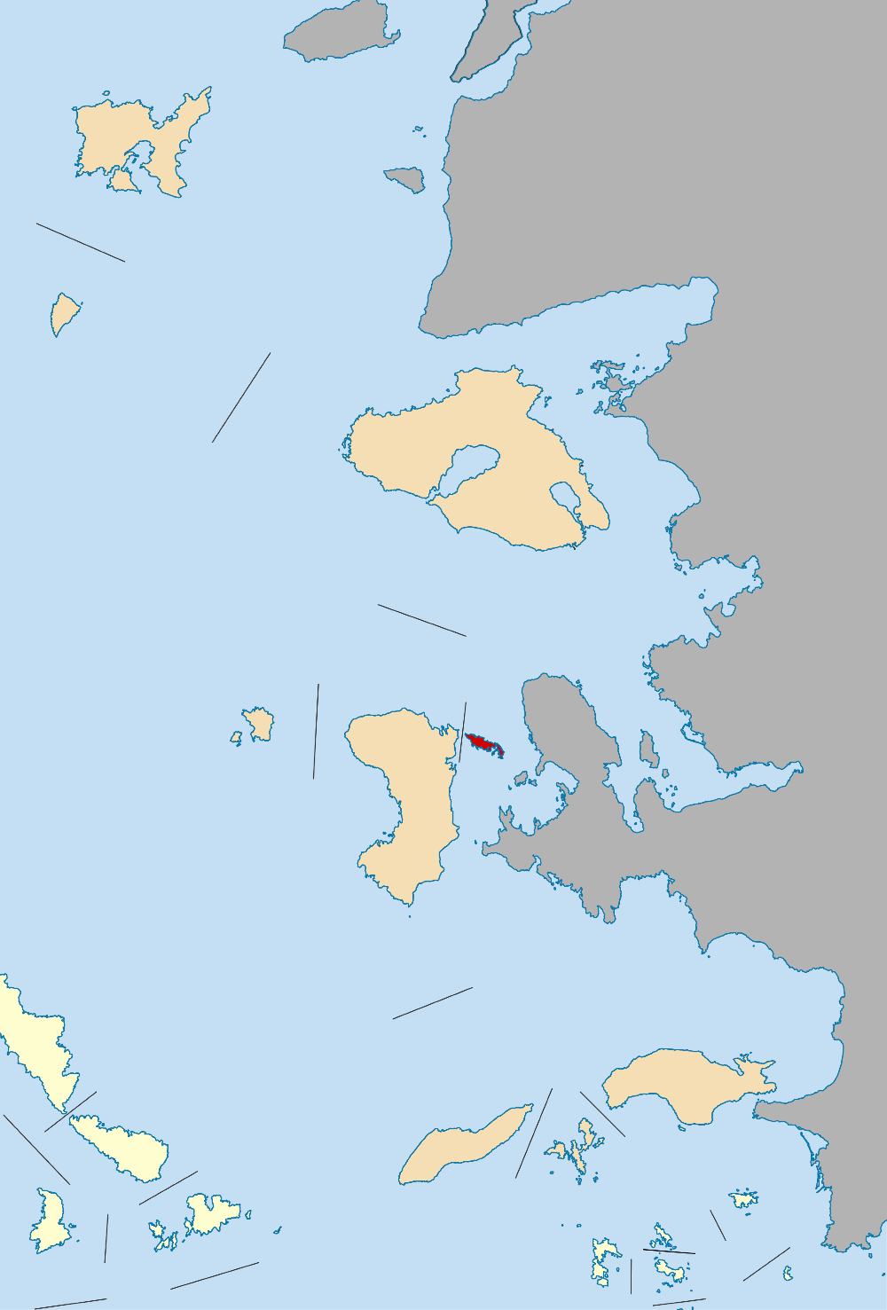 Locator map for Inousses municipality in Greek region North Aegean (2011)